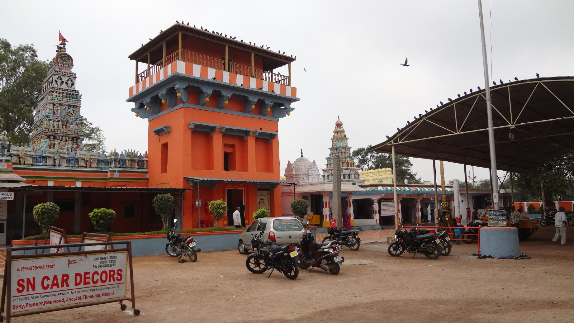 Hanuman temple's tower